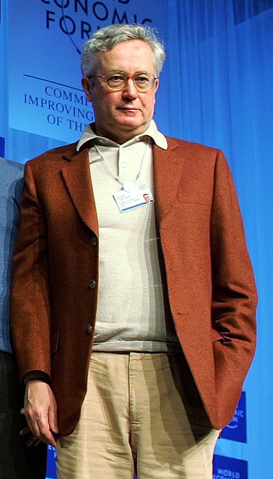 Giulio Tremonti during the 2006 World Economic Forum.